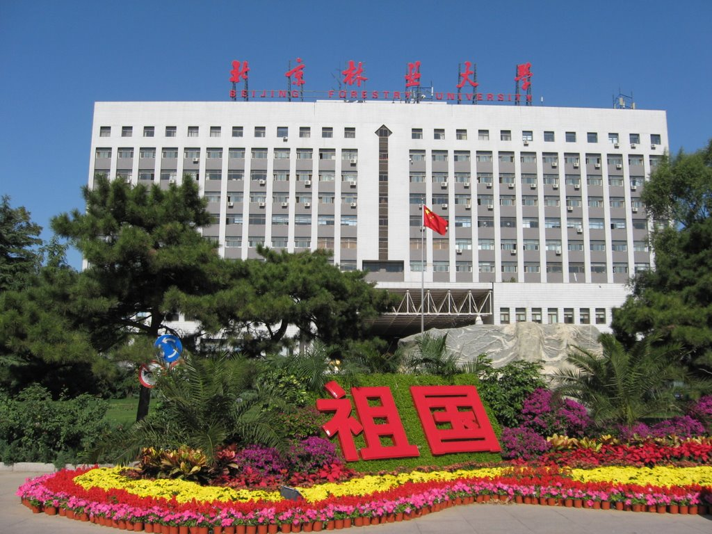 Beijing Forestry University, main entrance, with floral display commemorating the 60th anniversary of the establishment of the People's Republic of China, October 2009